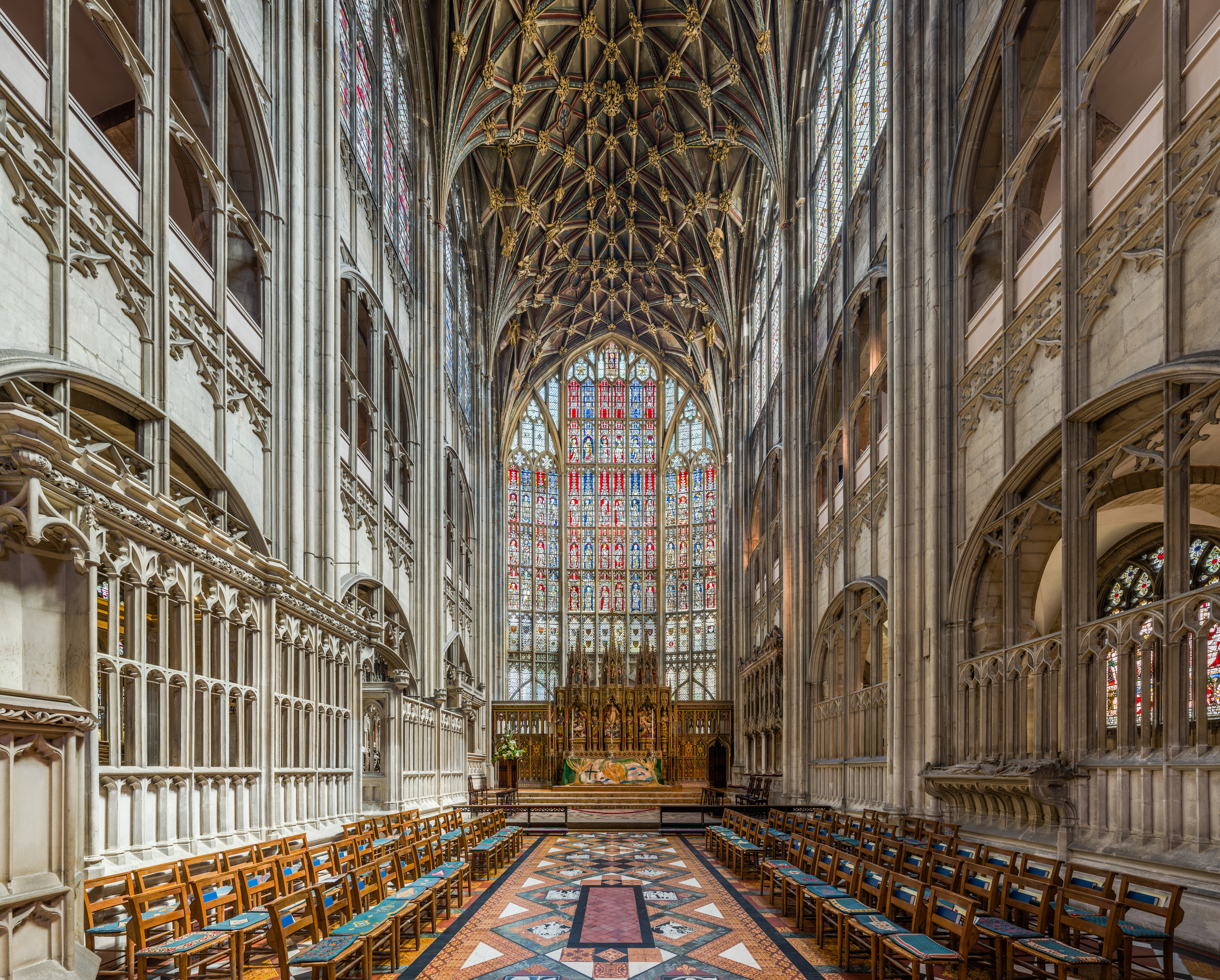 The High Altar and stained glass of Gloucester Cathedral in Gloucestershire, England.